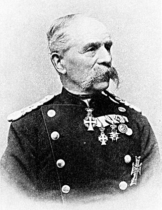 Benedictus Frederik Julius Thorkelin (1827-1910), Danish Colonel